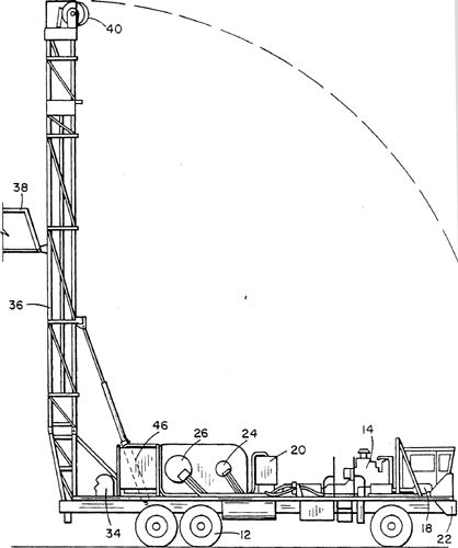 Illustration of a mobile drilling rig.